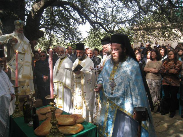 Citizens of Fuheis celebrate Saint George's day in a shrine where a part of Saint George's body is believed to be buried.